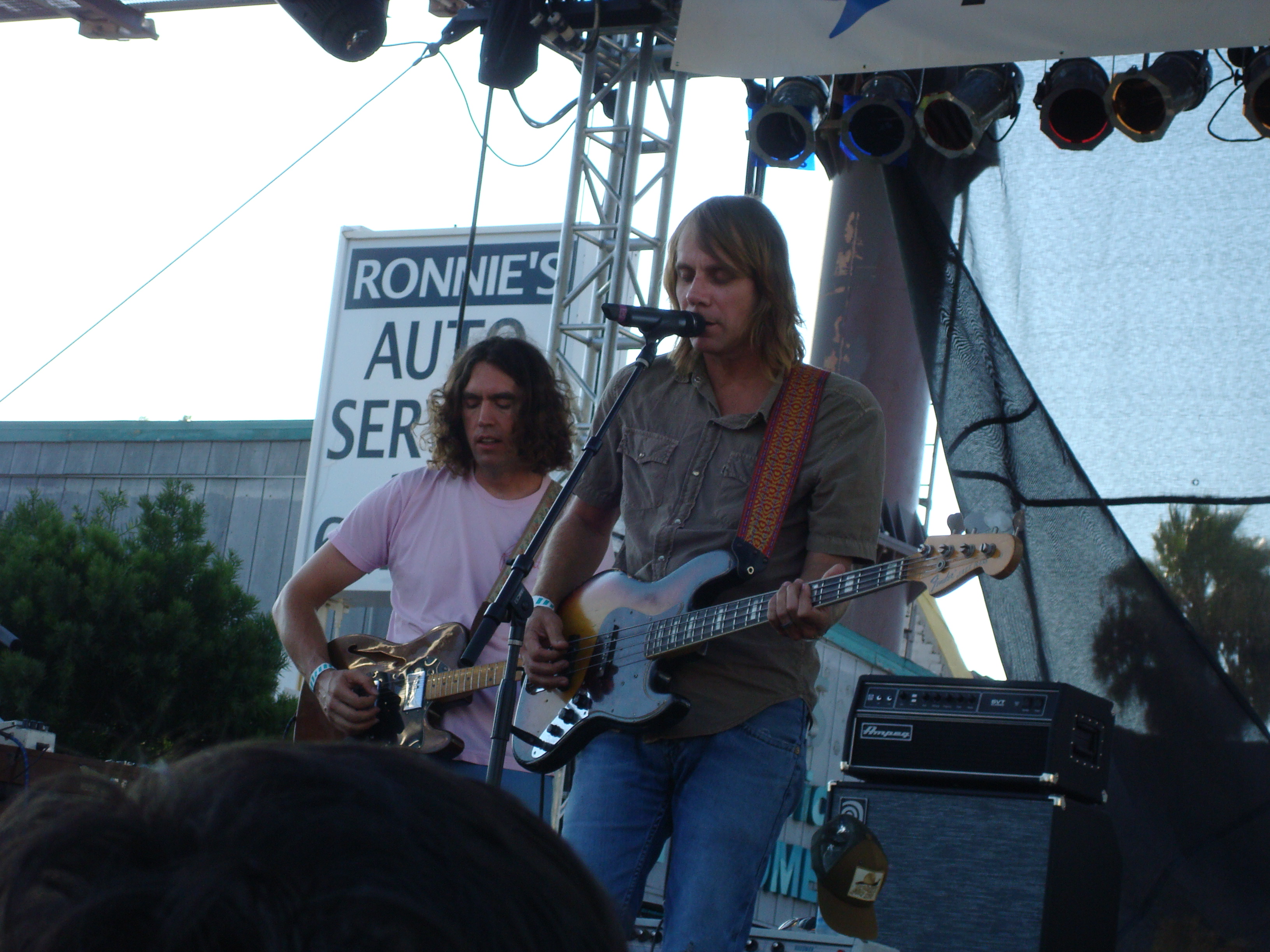 Beachwood Sparks 08-24-08005